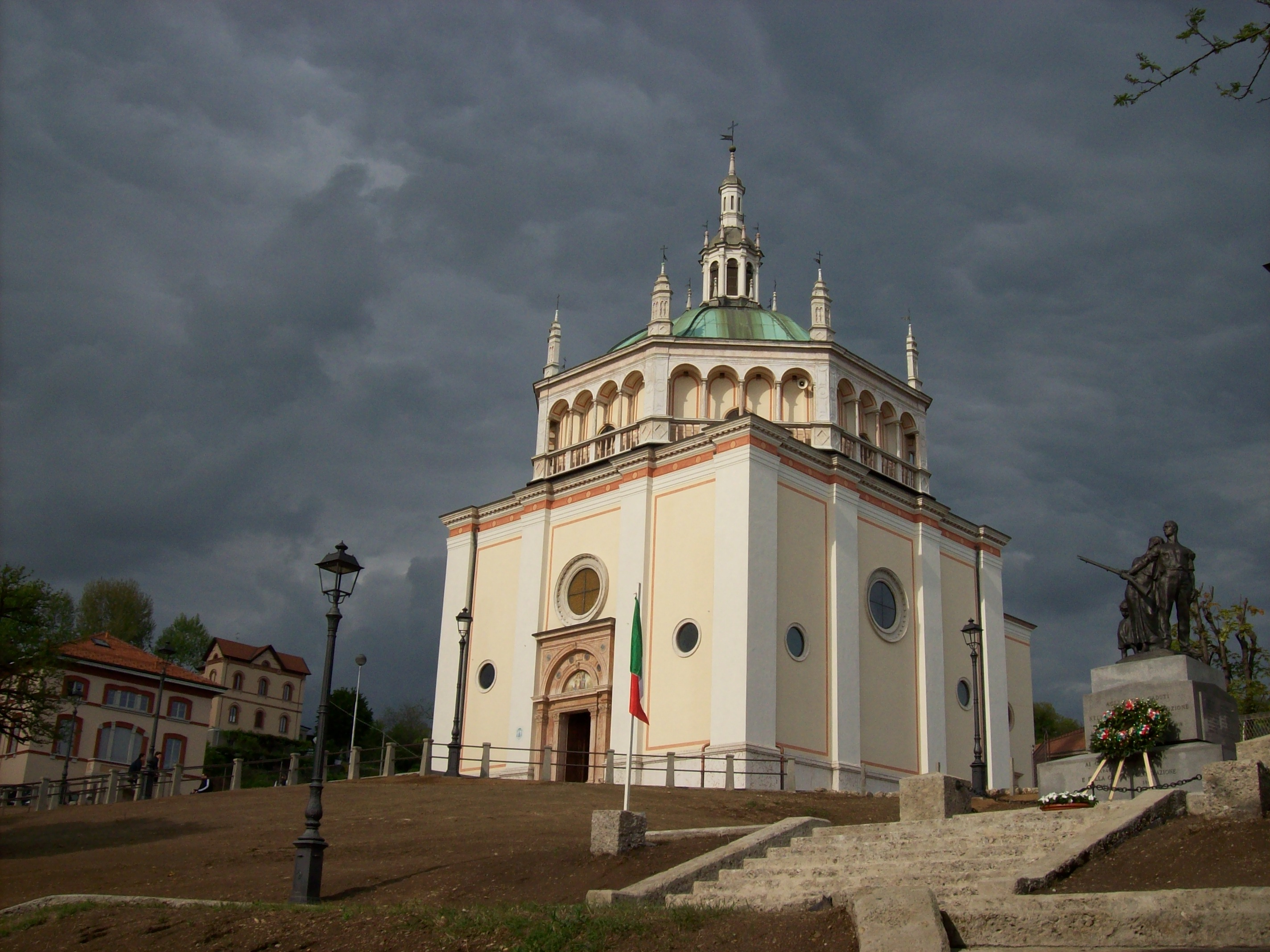 Crespi d'Adda workers' village (Capriate San Gervasio, province of Bergamo, Italy): church of ss. Nome di Maria, copy of the Santuario of Santa Maria di Piazza, Busto Arsizio (province of Varese)